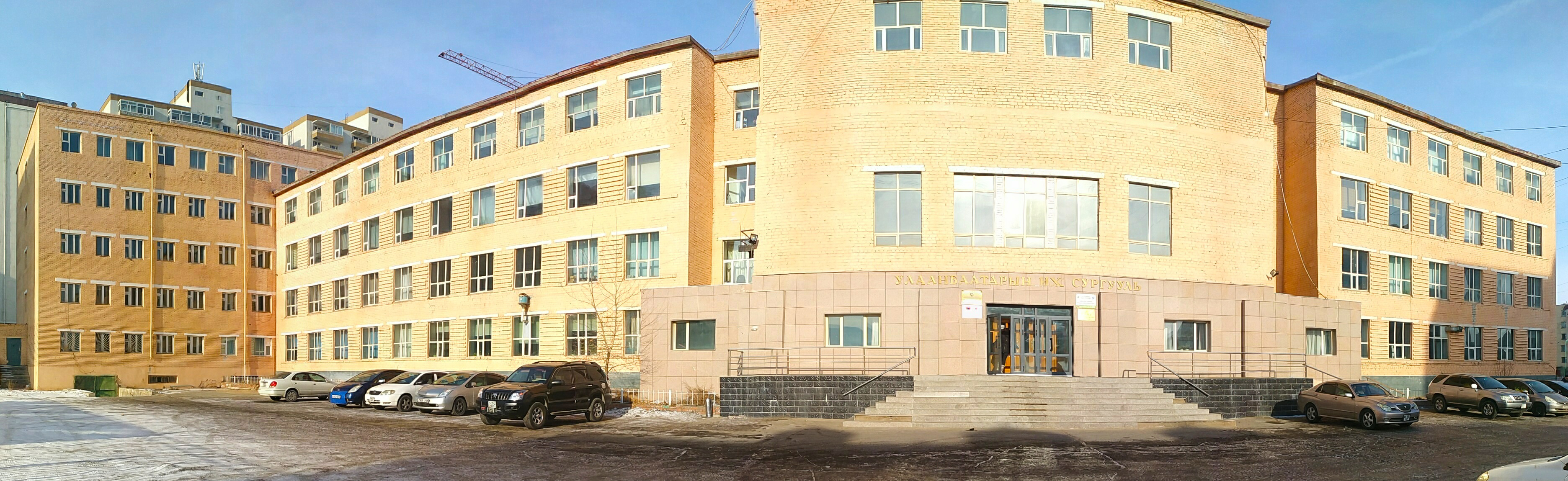 Ulaanbaatar State University